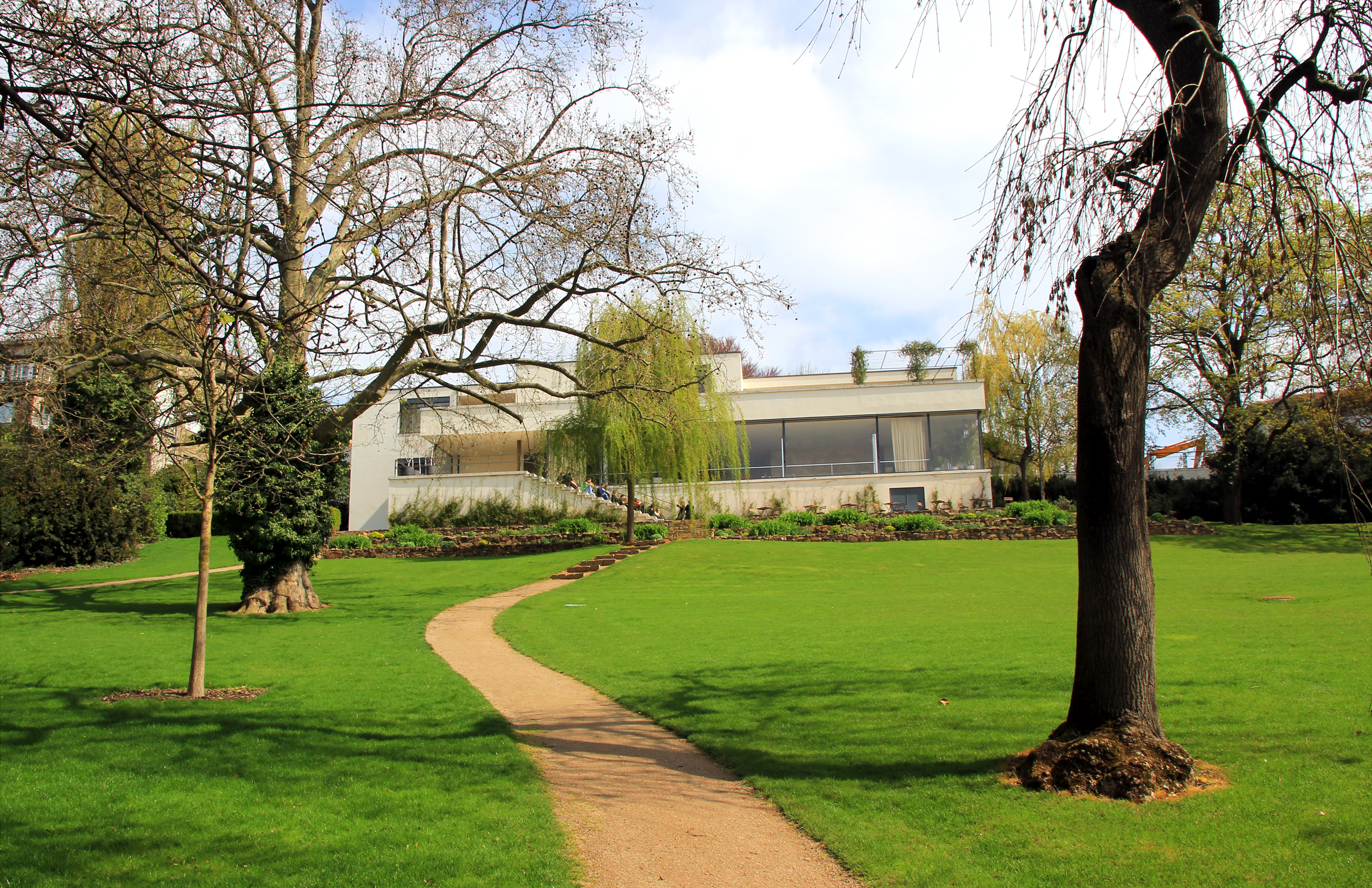 Villa Tugendhat in town Brno, Czech Republic